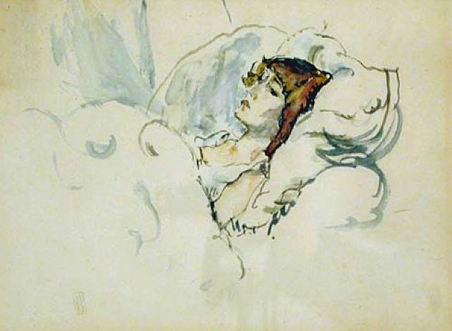 Jules Pascin:Hermine au lit (Hermine David in bed), watercolour on paper